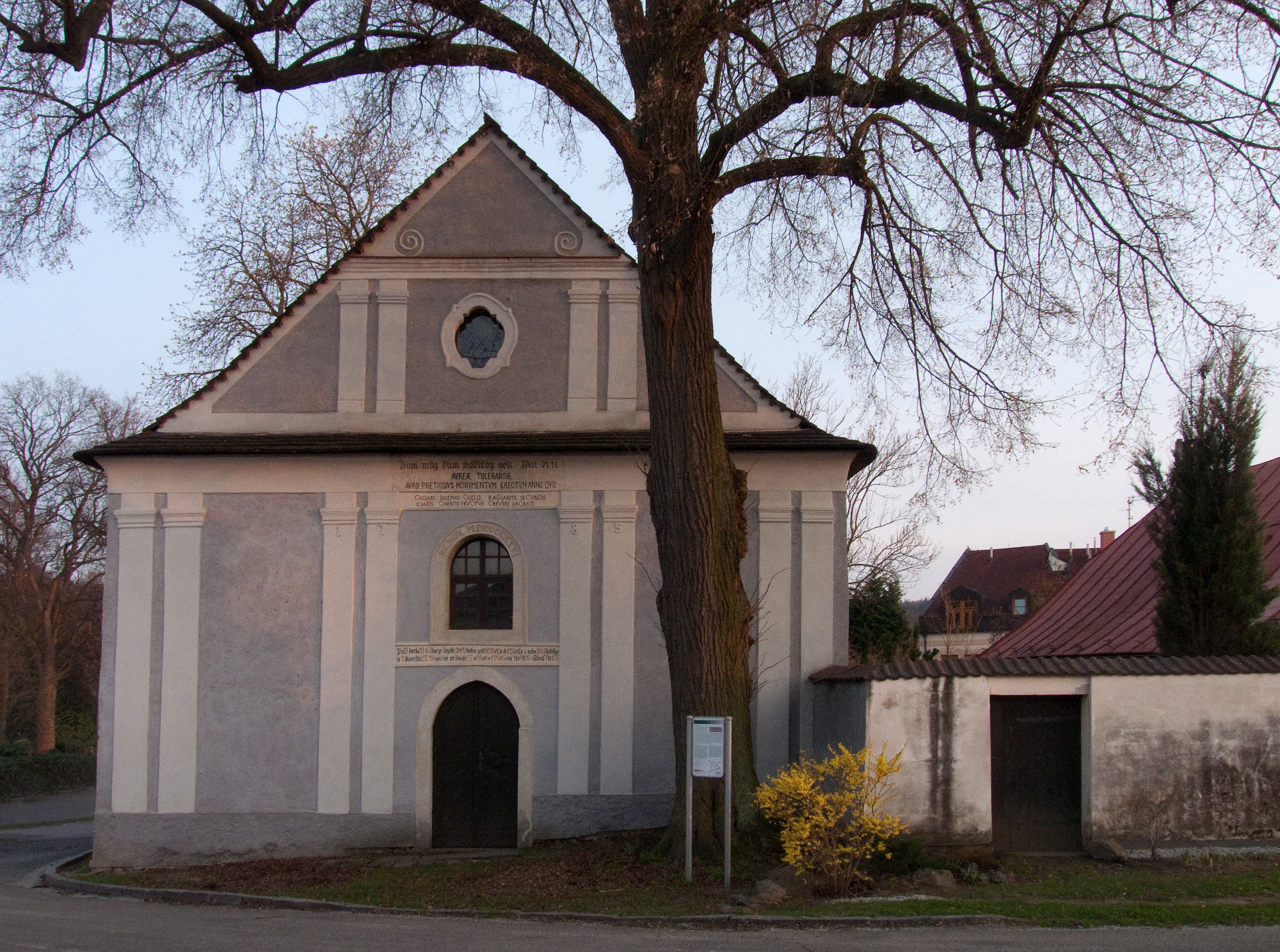 Tolerance church in Humpolec, Pelhřimov District, Czech Republic